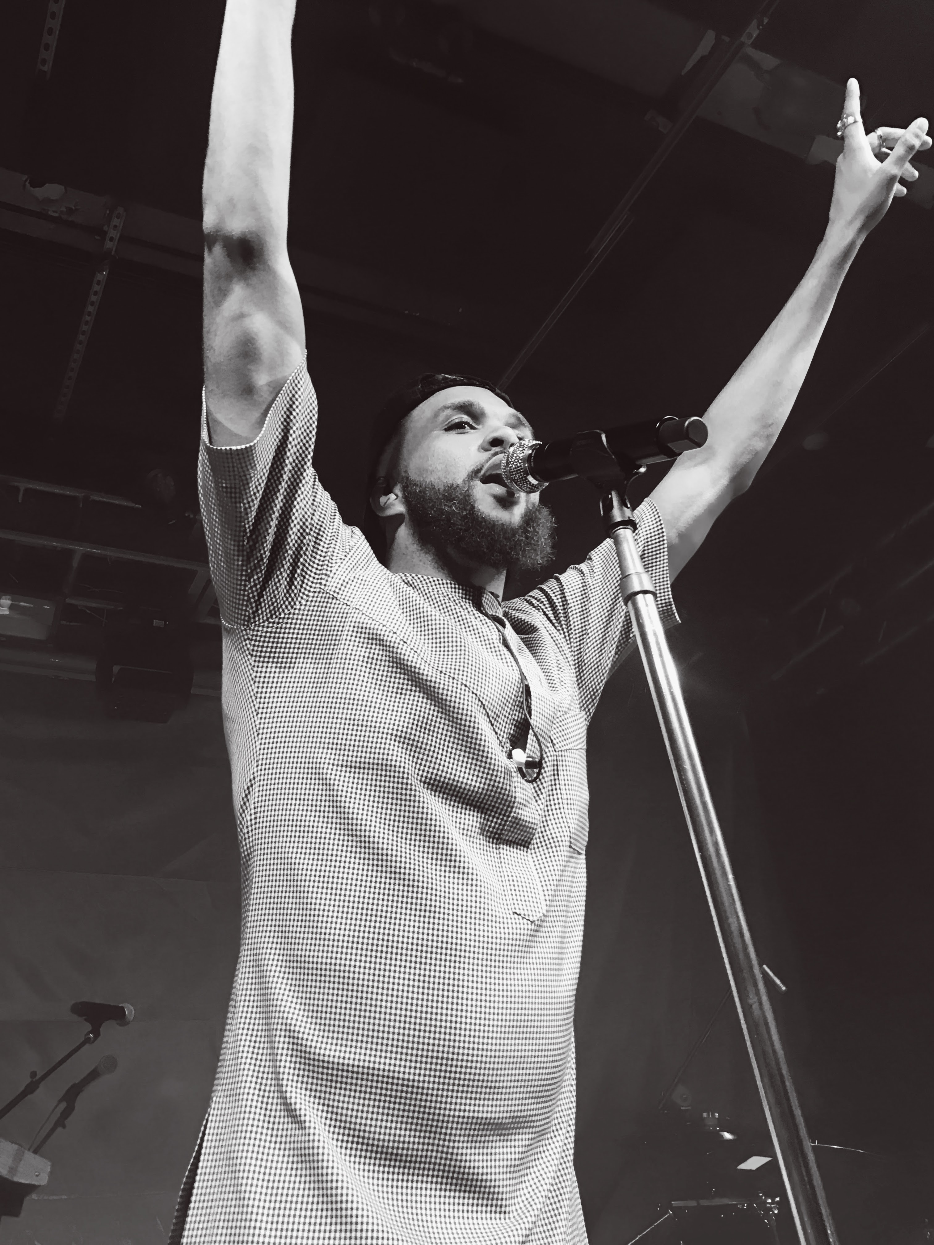 Photograph by Josh Jaffe (@josh_jaffe)